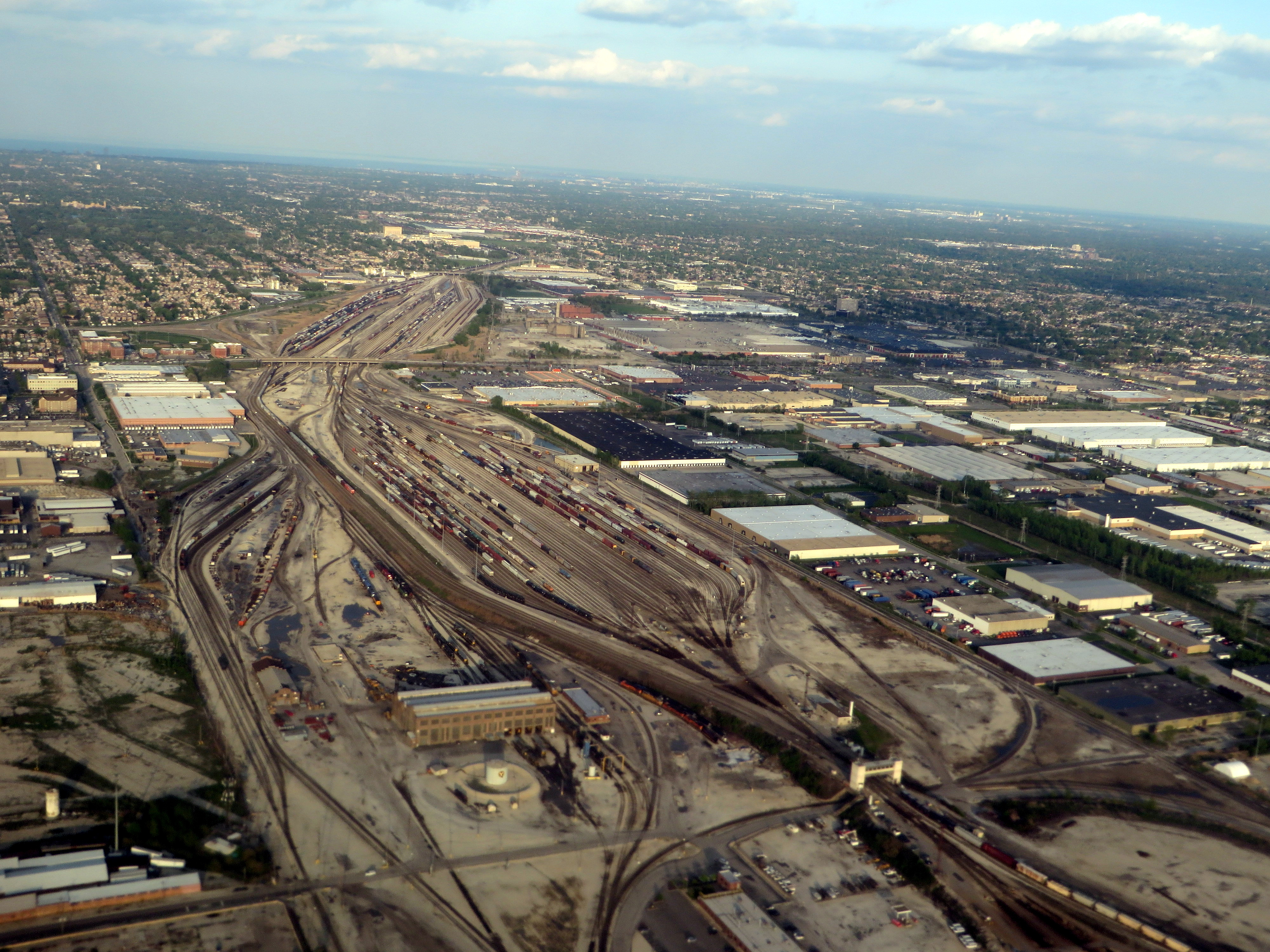 Looking east along the Belt Railway of Chicago Clearing Yard. Chicago Midway International Airport is just to the left (north) of this yard. Chicago is the largest hub in the railroad industry. Six of the seven Class I railroads meet in Chicago, with the exception being the Kansas City Southern Railway. As of 2002, severe freight train congestion caused trains to take as long to get through the Chicago region as it took to get there from the West Coast of the country (about 2 days). About one-third of the country's freight trains pass through the city, making it a major national bottleneck. Announced in 2003, the Chicago Region Environmental and Transportation Efficiency (CREATE) initiative is using about $1.5 billion in private railroad, state, local, and federal funding to improve rail infrastructure in the region to reduce freight rail congestion by about one third.